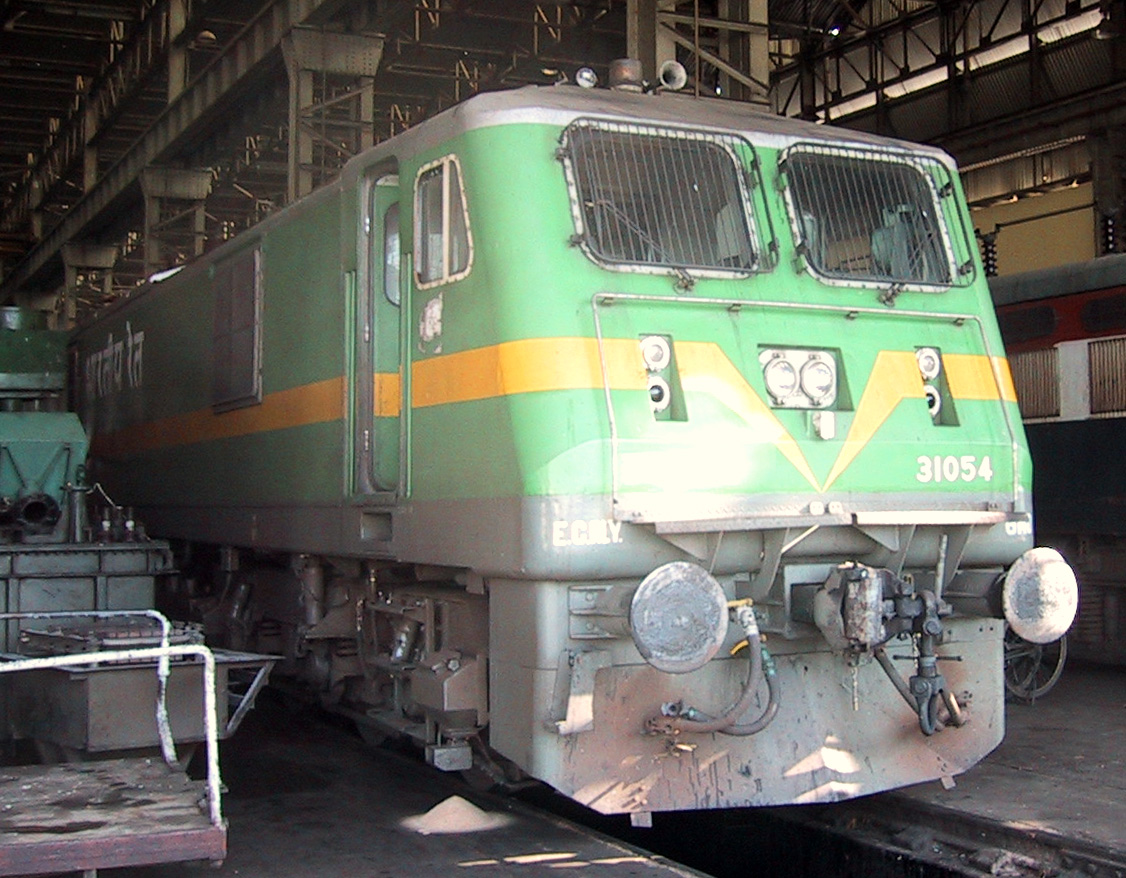 Electric Locomotive WAG-9 31054 of Indian Railways in locomotive shed Ghomo.